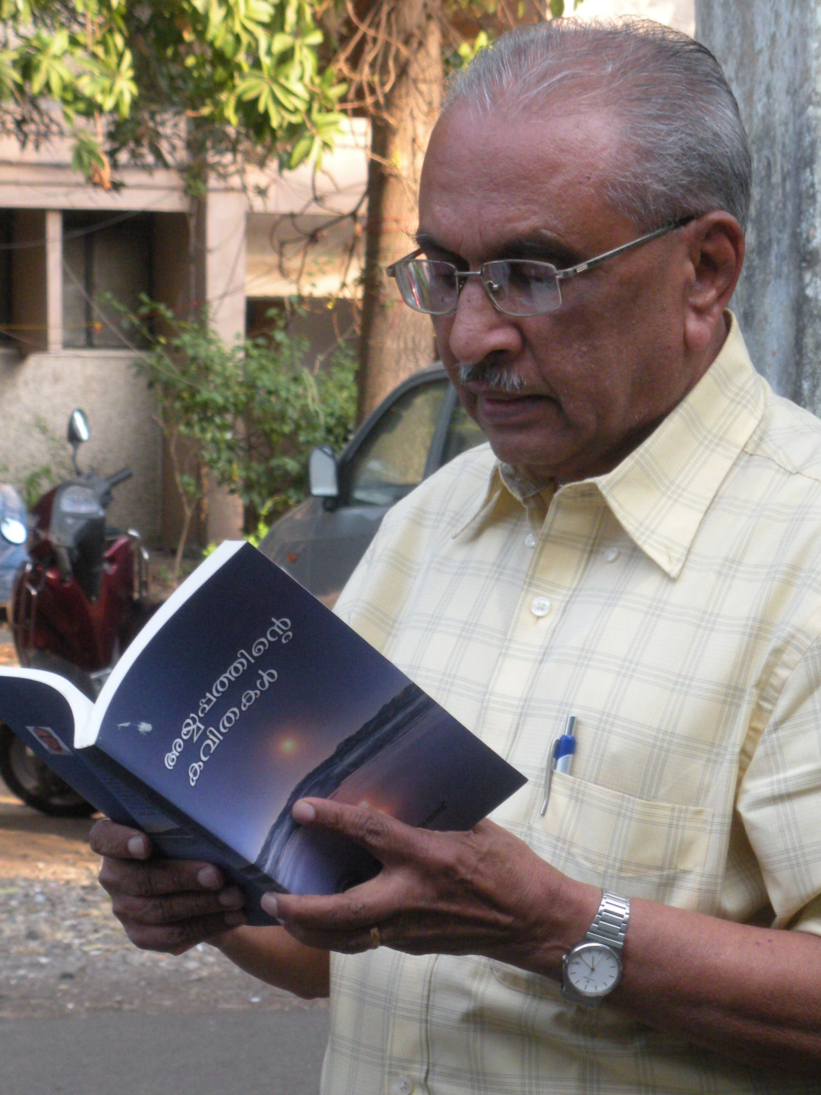 Madhavan Ayyappath reciting his poem at Anushaktinagar (Mumbai)